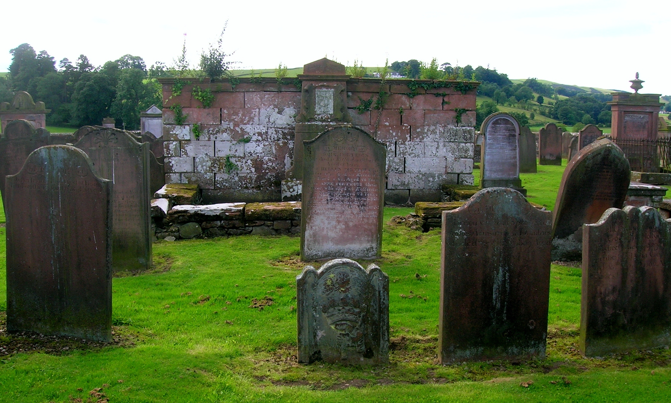 View of the Lord's of Lag burial site, Dunscore Old Kirk, Merkland, Dumfries and Galloway, Scotland